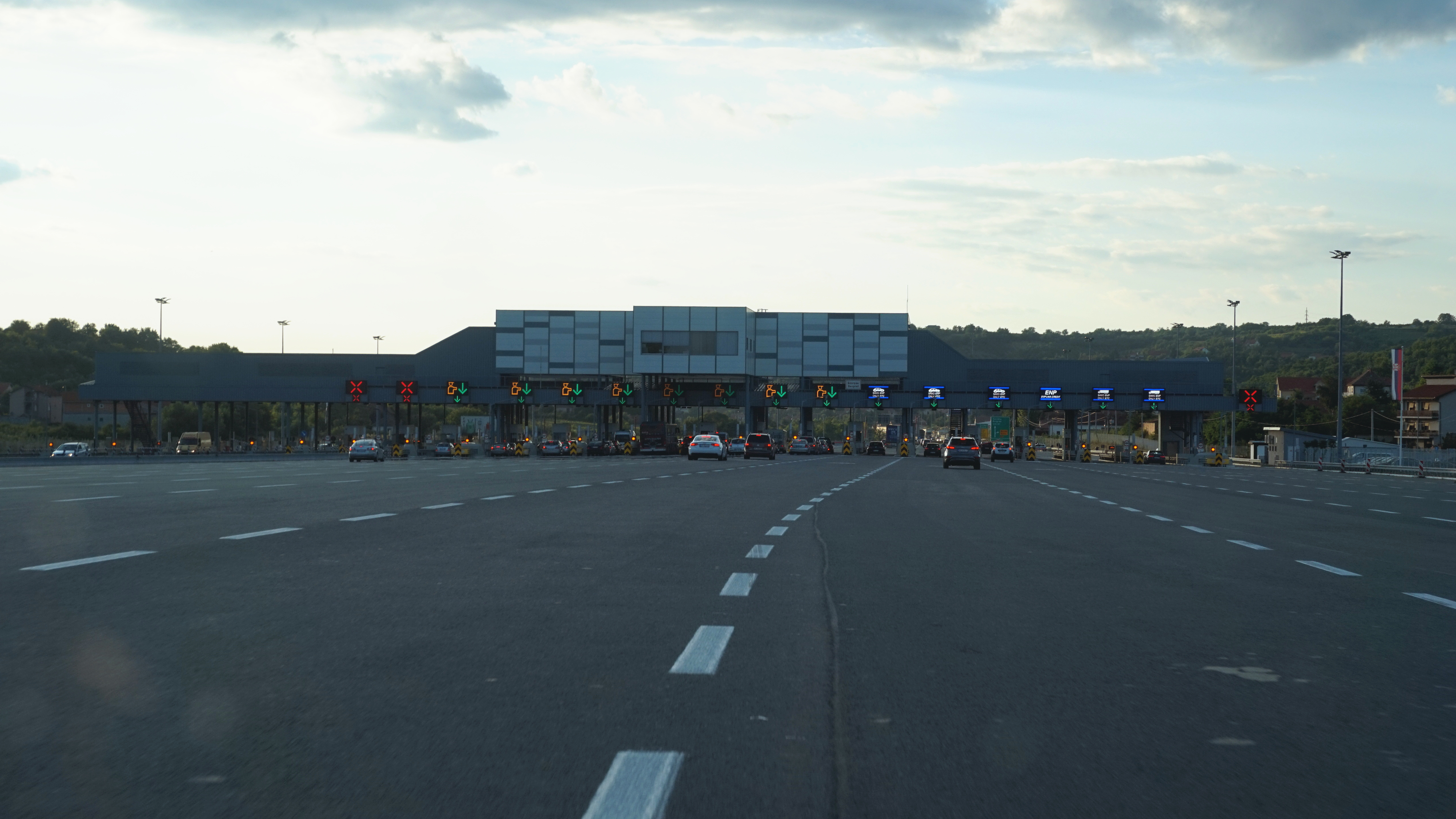 Belgrade (Vrčin) toll gate on Motorway A1, Serbia